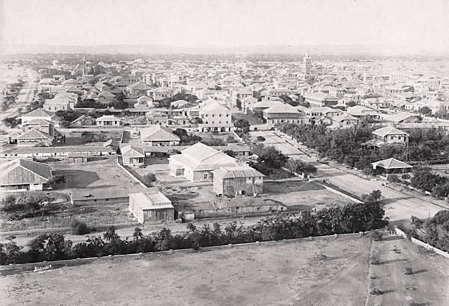 An old view of the Karachi city, dating 1889. This is a very old file image and does not have copyright anymore.